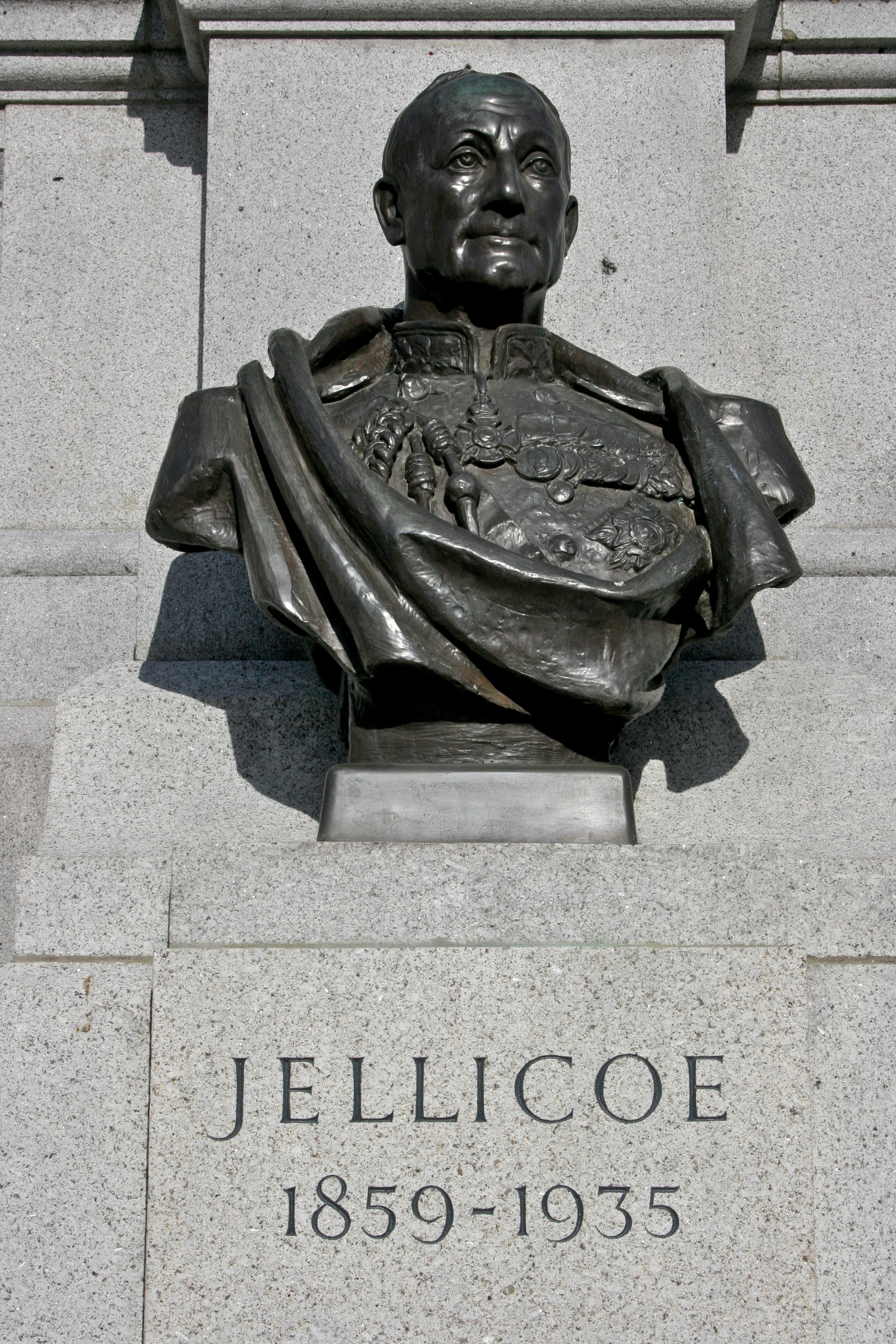 Statue of Jellicoe (1859-1935) in Trafalgar Square, London.